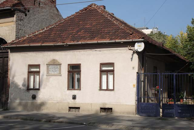 Déryné-house, Miskolc, Hungary